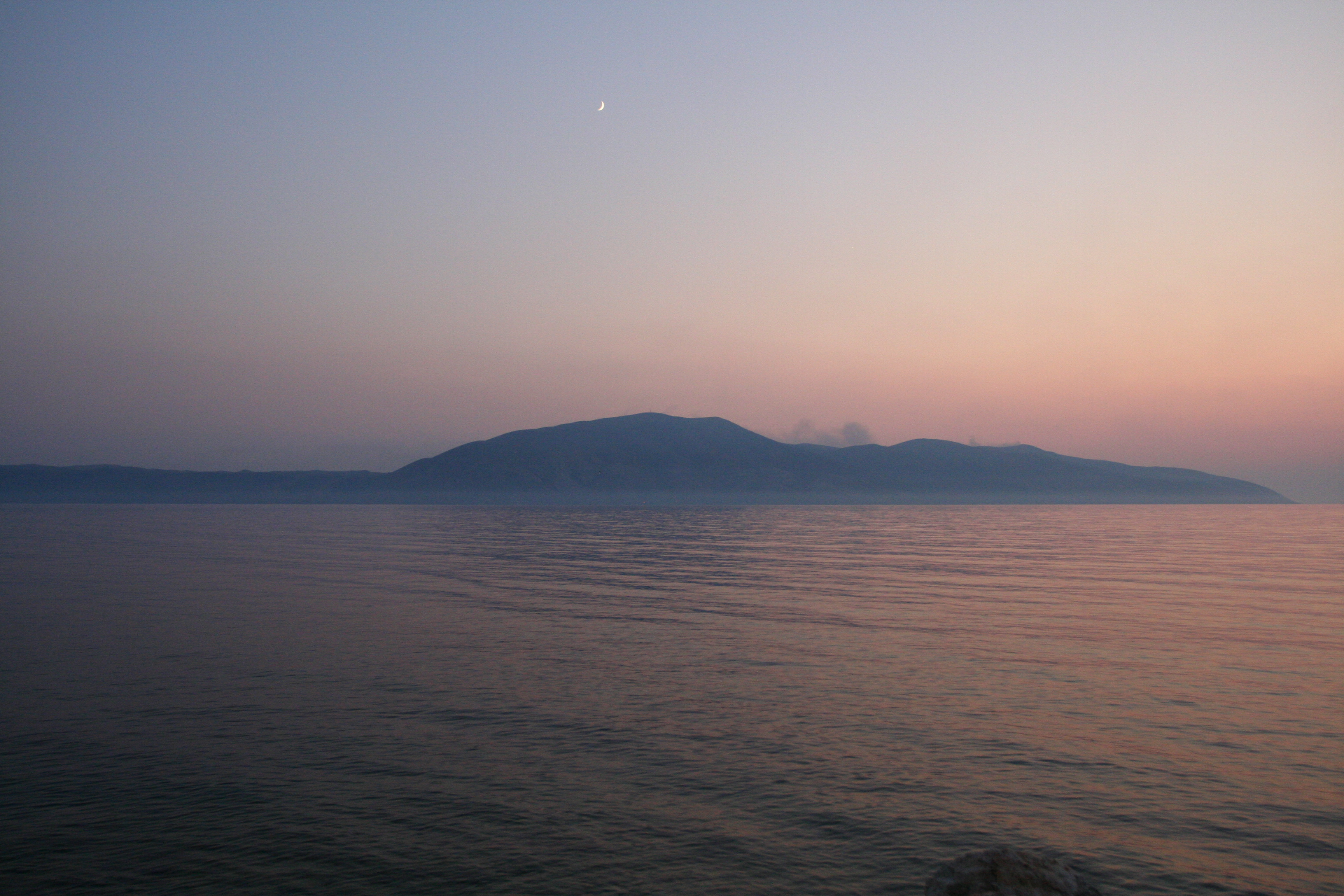 Sunset on the Bay of Vlora, showing the Karaburun Peninsula